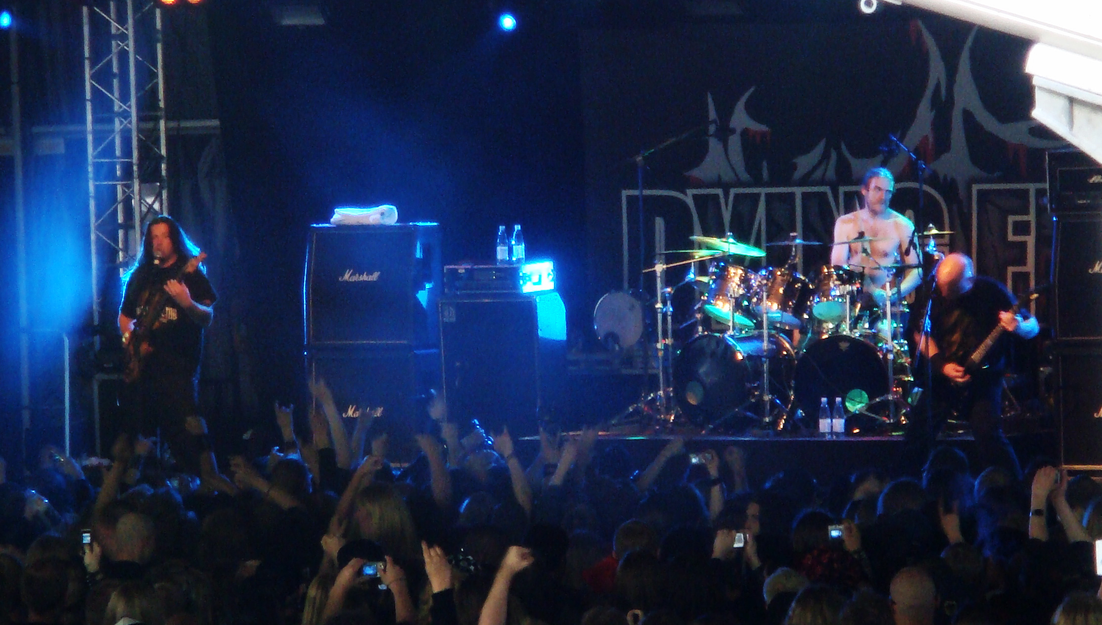 Grindcore band Dying Fetus performing during Tuska 2008 open air metal festival in Helsinki, Finland